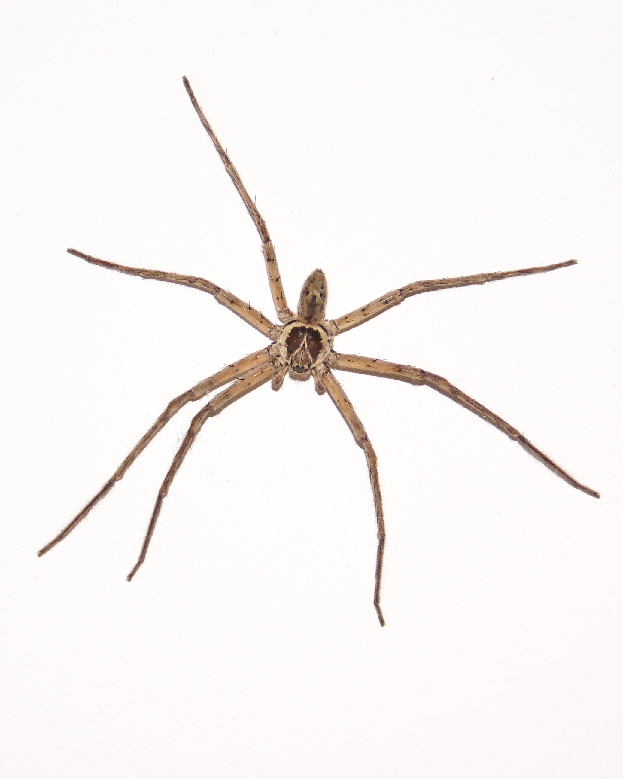 Male of Heteropoda venatoria on the ceiling of a flat (Réunion island)